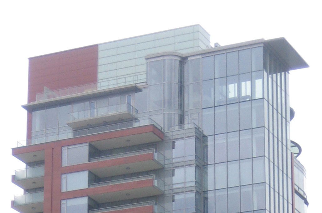 Outdoor terraces on setbacks at two different levels.